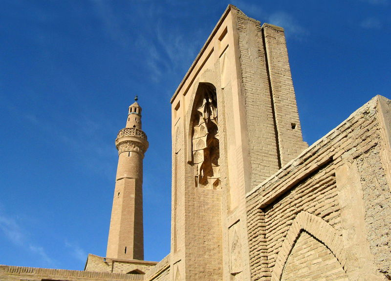 jame' mosque, Na'in